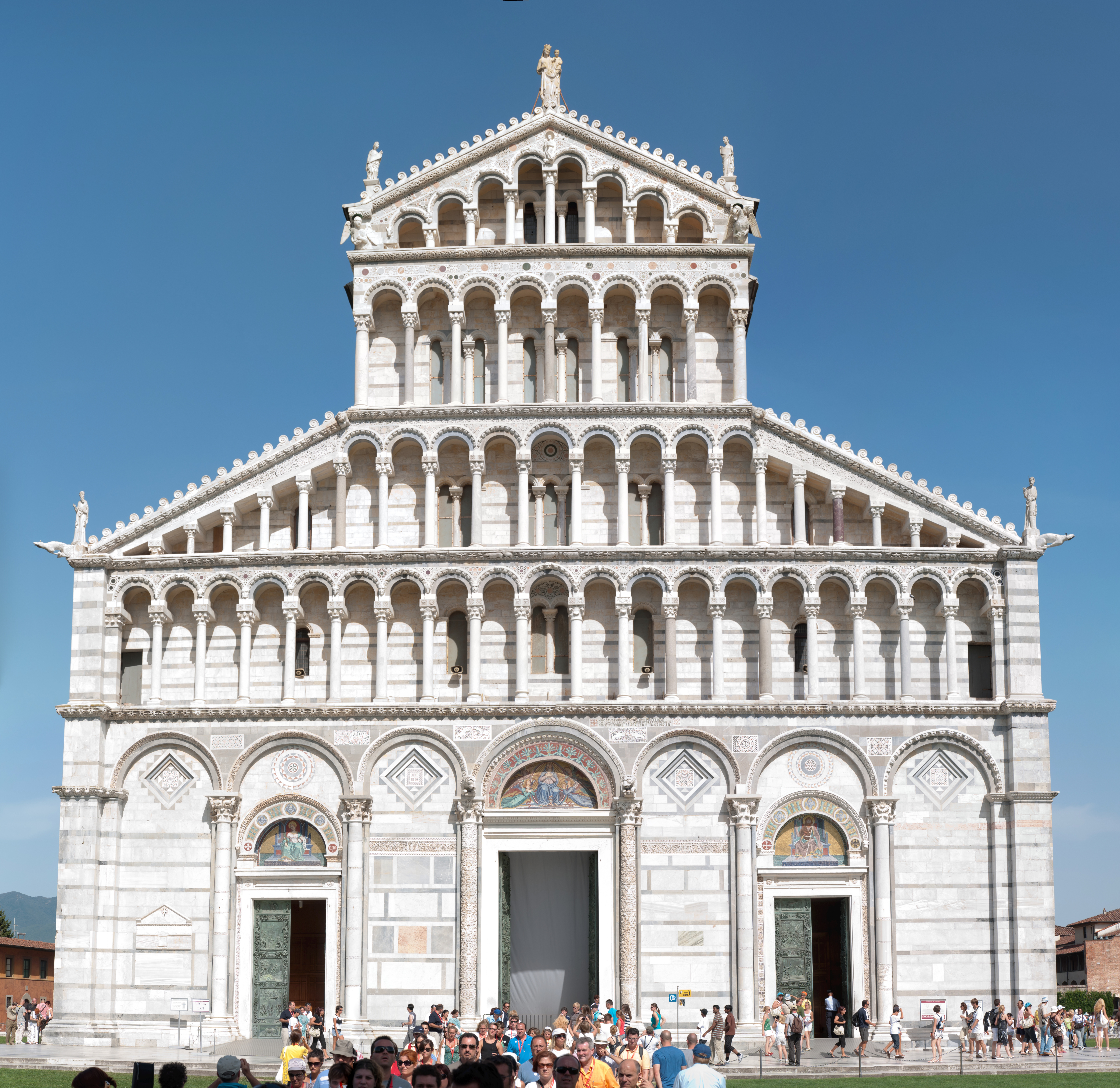 Front Facade of the Duomo di Pisa